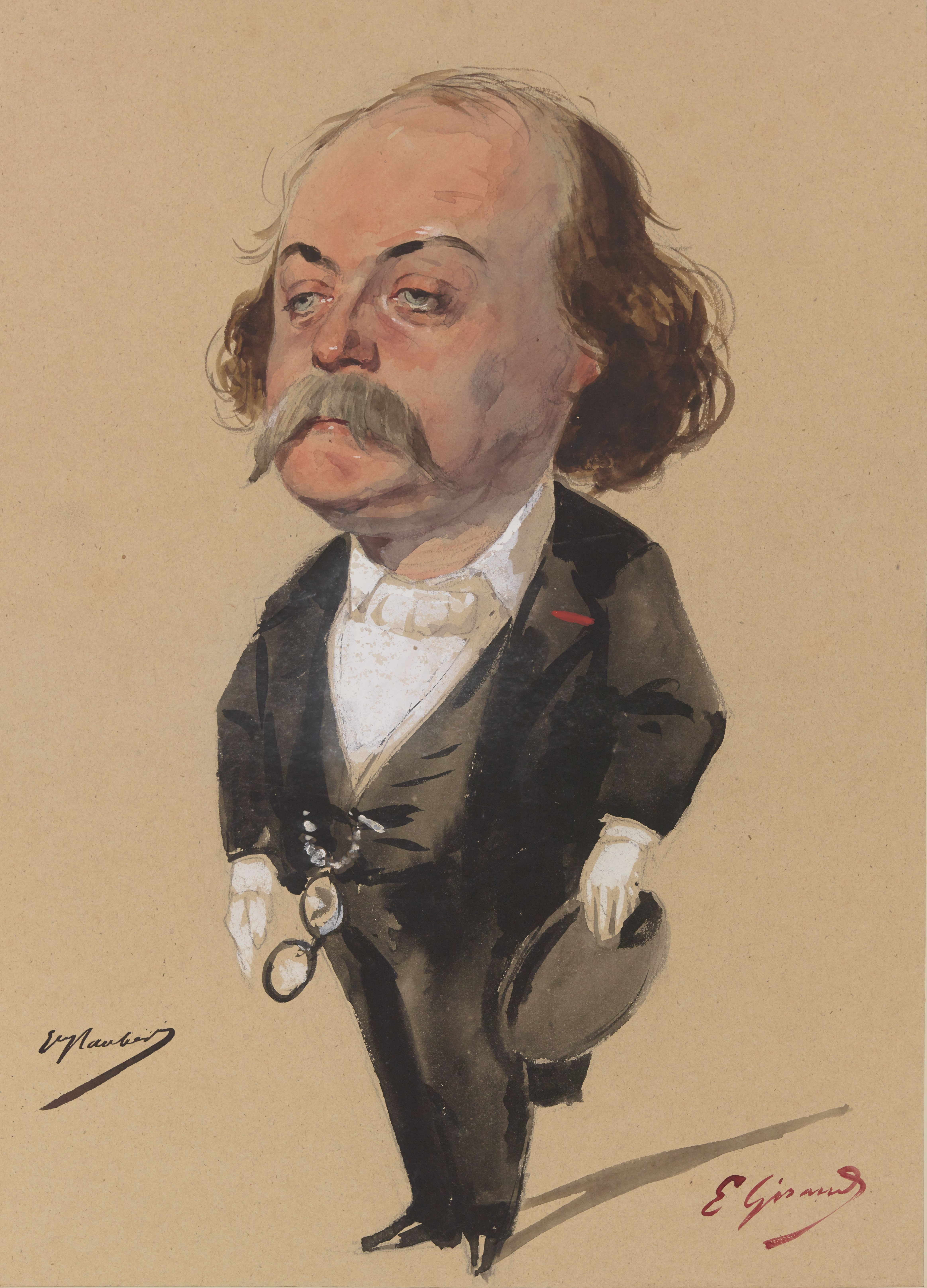 Caricature of Gustave Flaubert